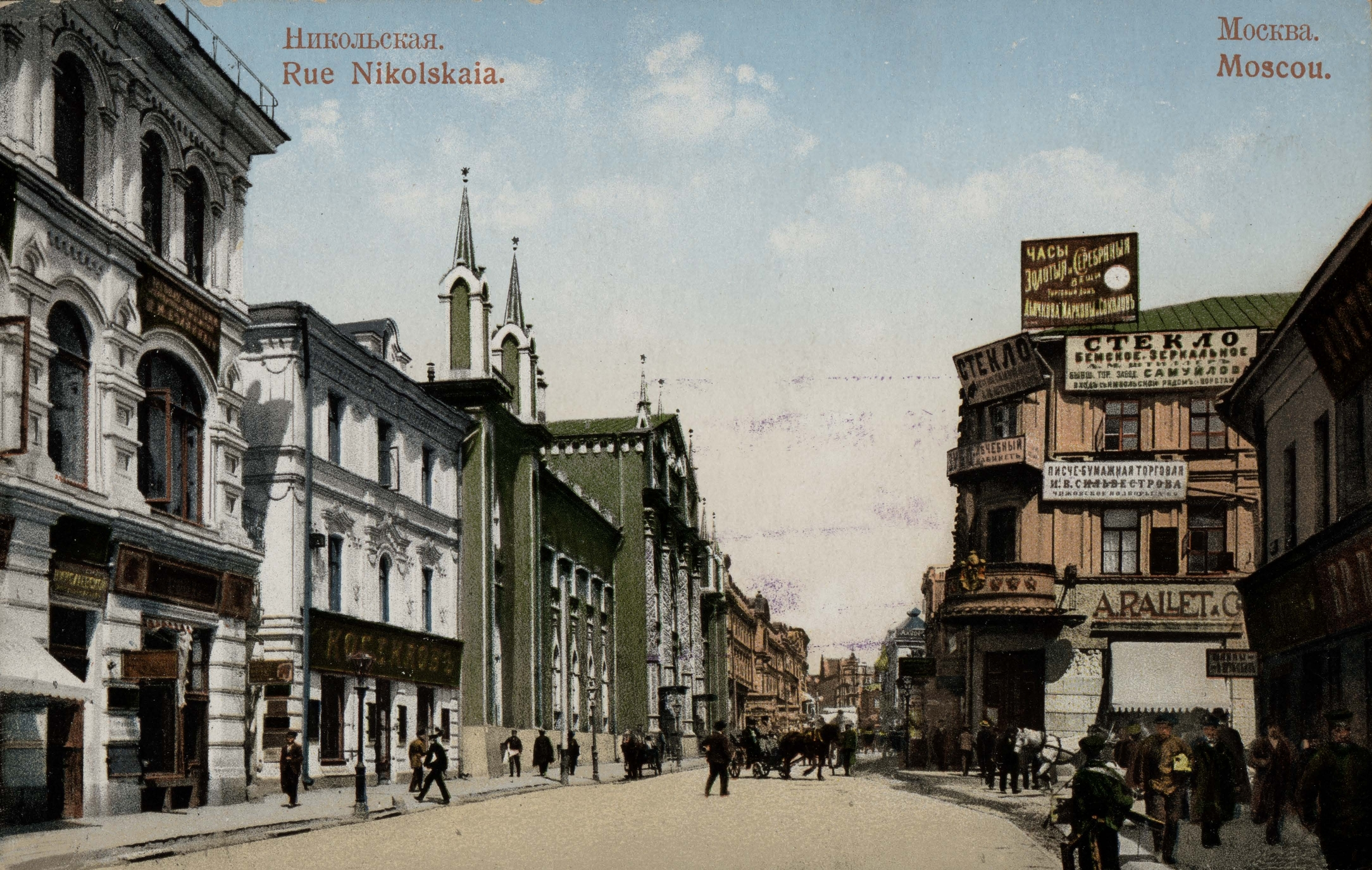 Nikolskaya Street in Moscow. The middle of street